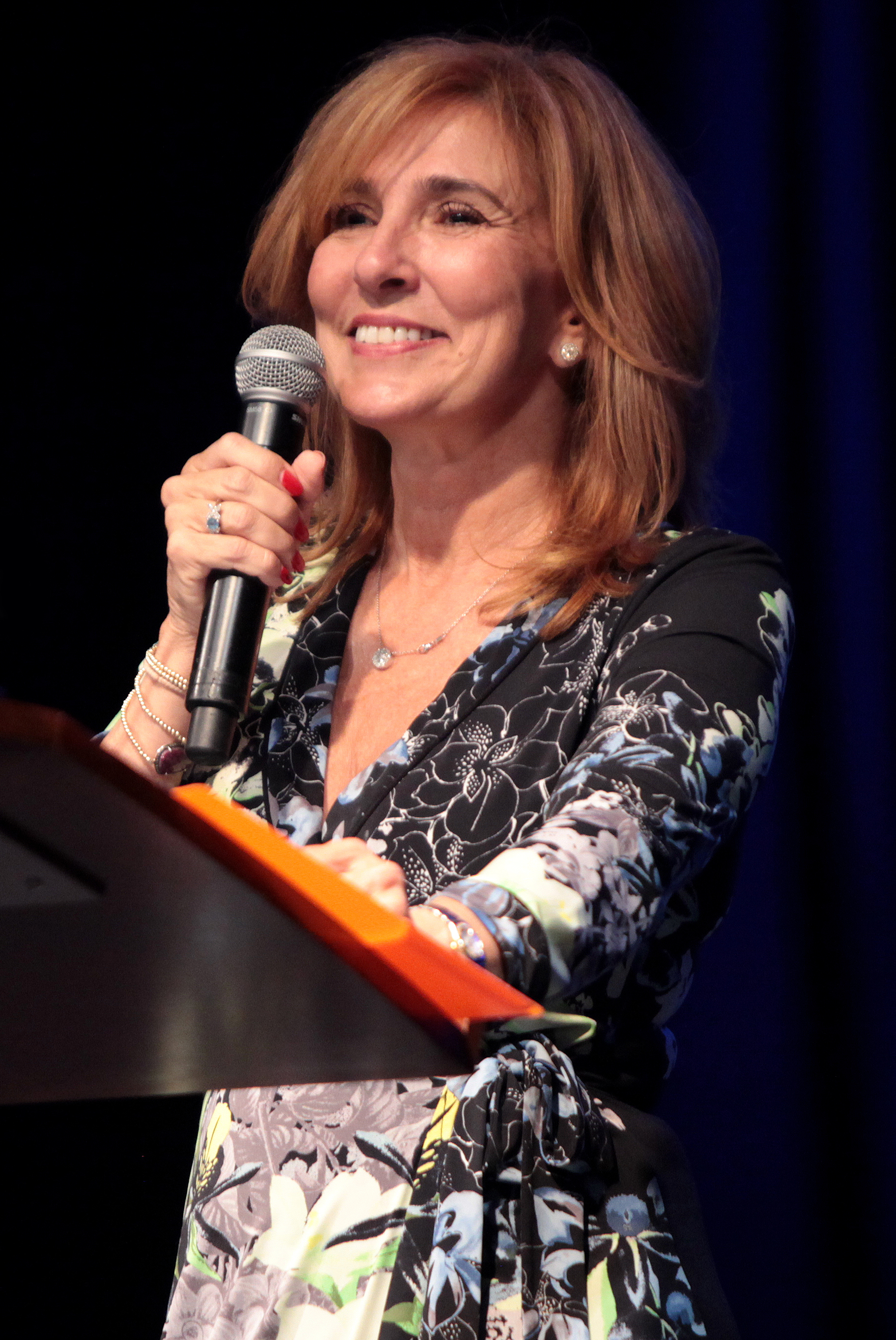 Marilyn Milian speaking at an event in Phoenix, Arizona.